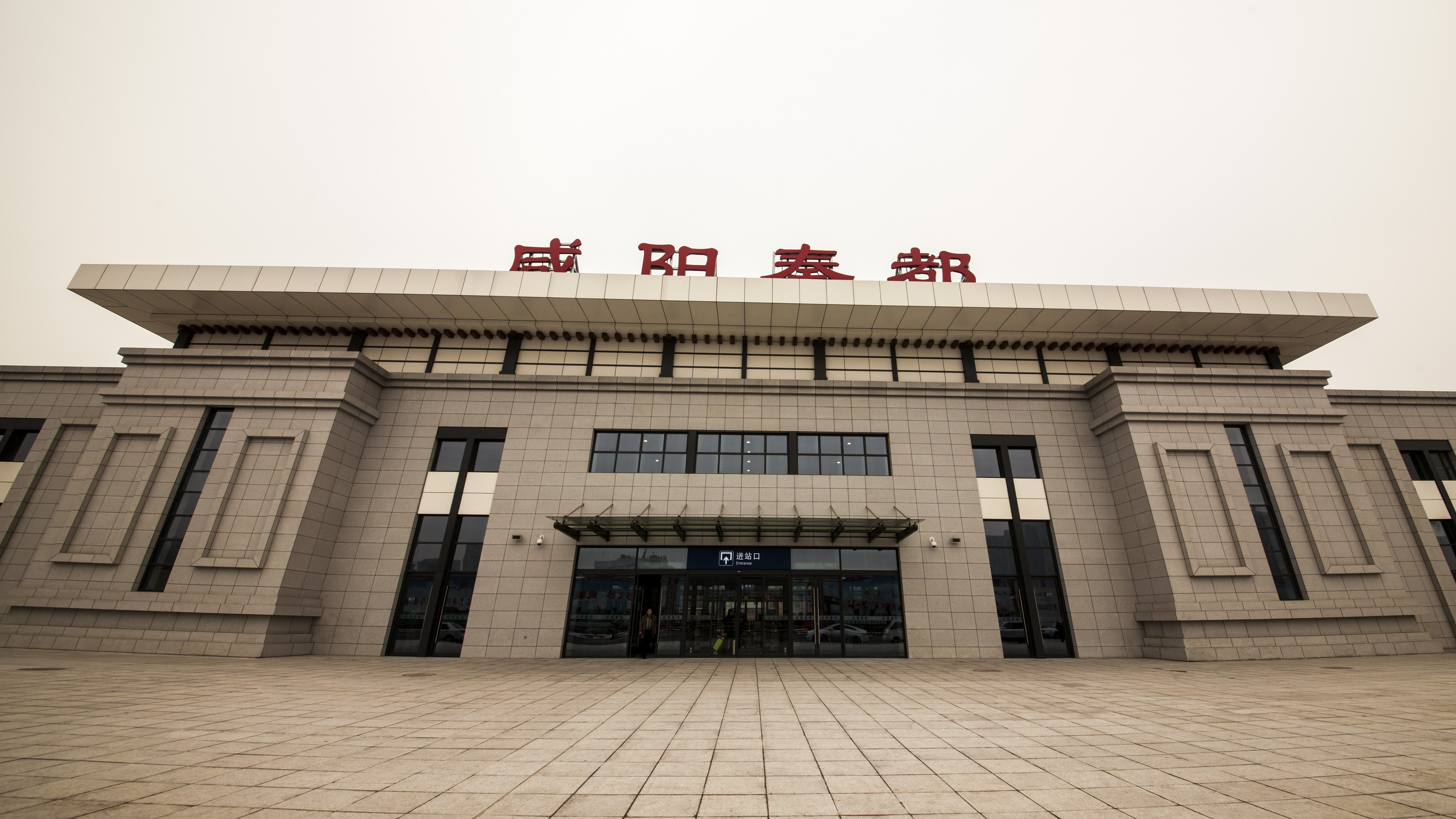 Xianyang Qindu Station